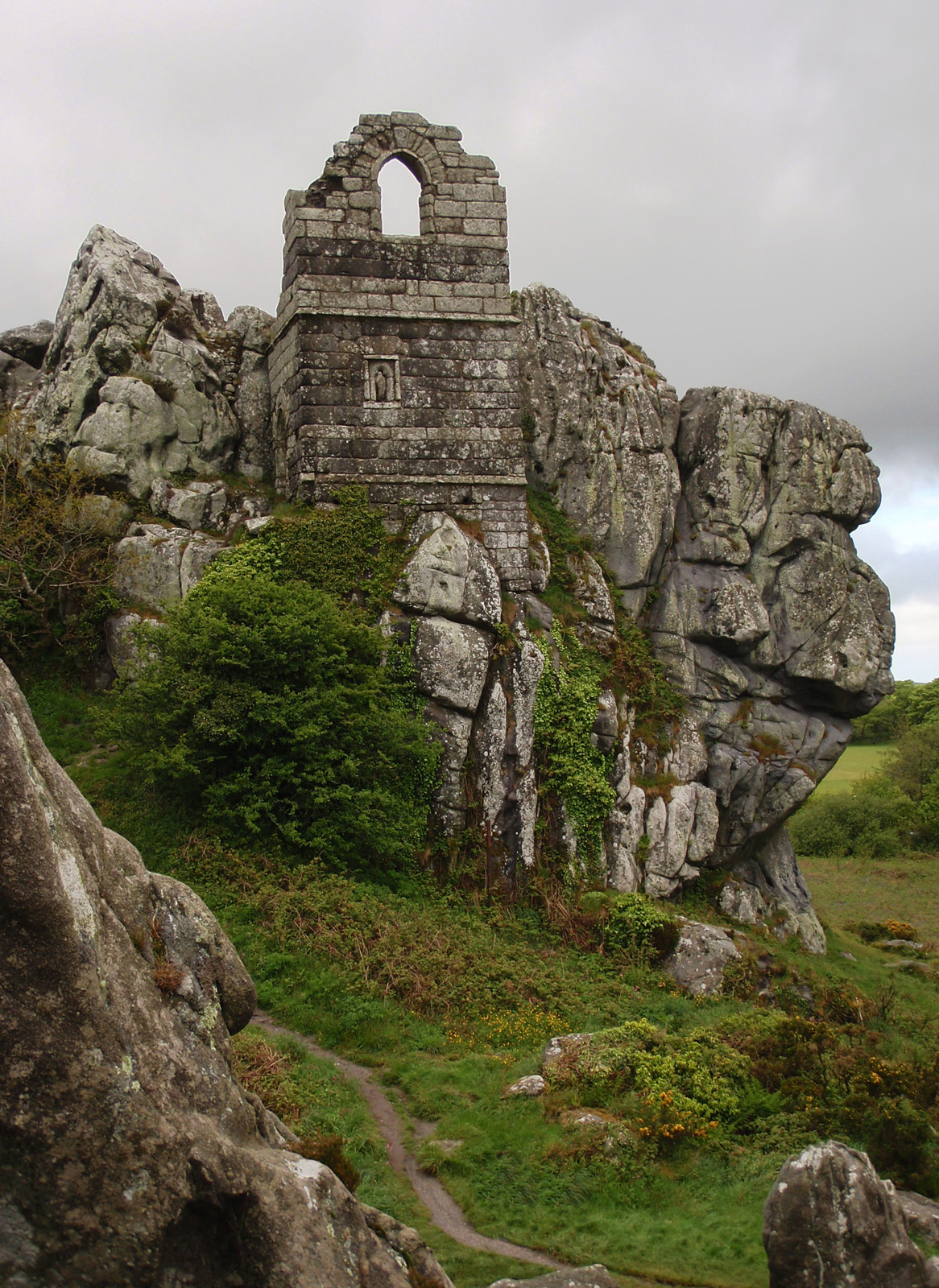 Roche Chapel - Overcast Day